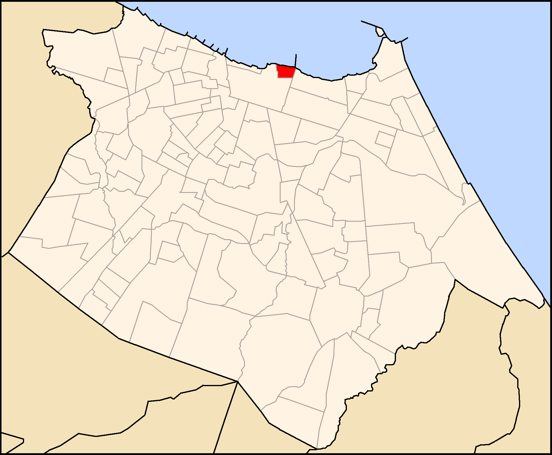 Fortaleza